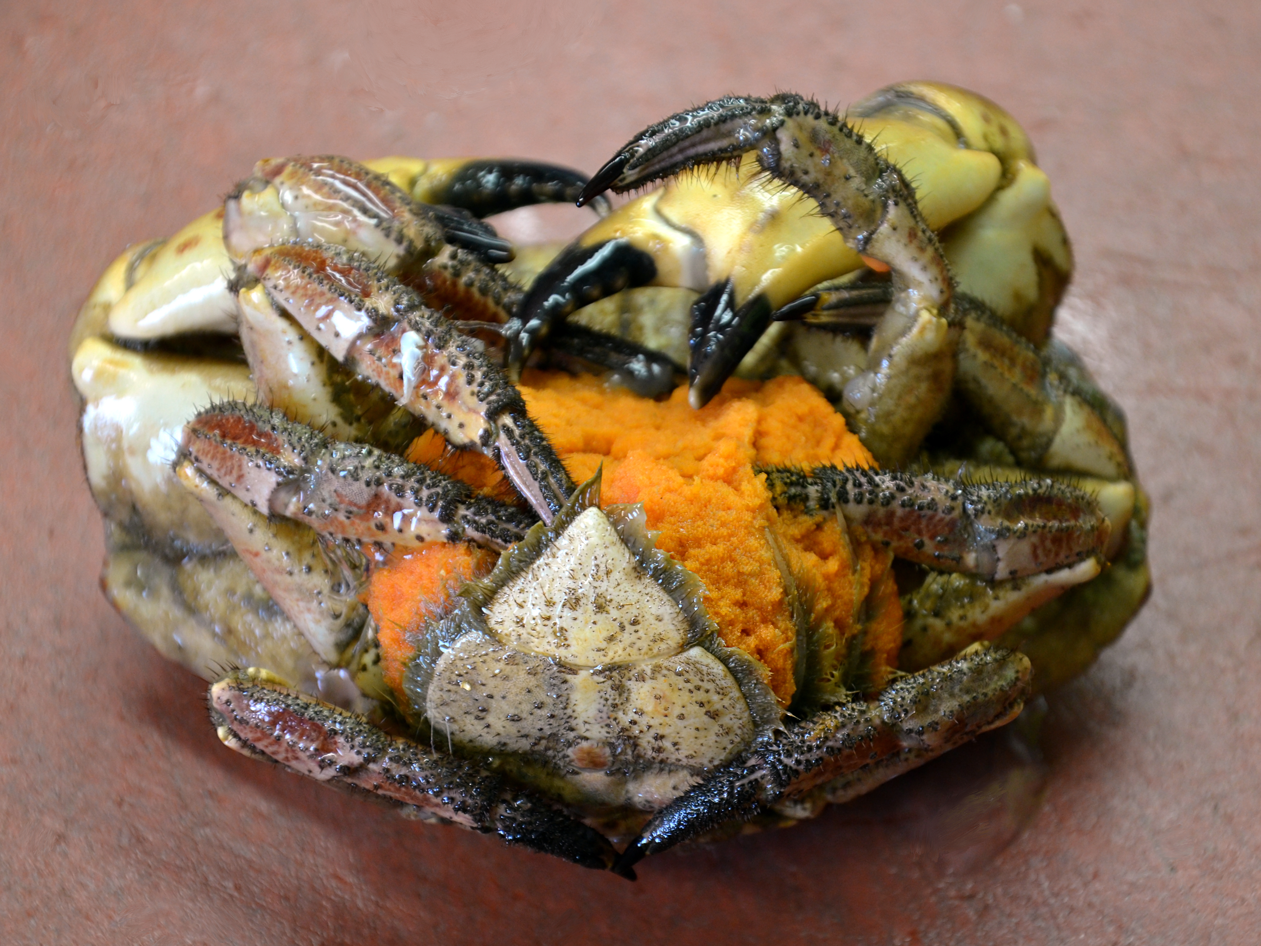 Female edible crab with eggs form the Belgian part of the North Sea. Image taken on board the R/V Belgica. Female egg-bearing crabs are returned to the sea as quickly as possible after having being measured and weighed.